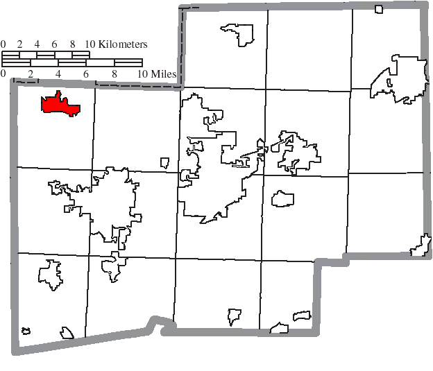 Map of the municipal and township boundaries of Stark County, Ohio, United States, as of the 2000 census, with the location of the city of Canal Fulton highlighted. Township borders are shown only in unincorporated areas in order to differentiate incorporated and unincorporated areas more clearly.